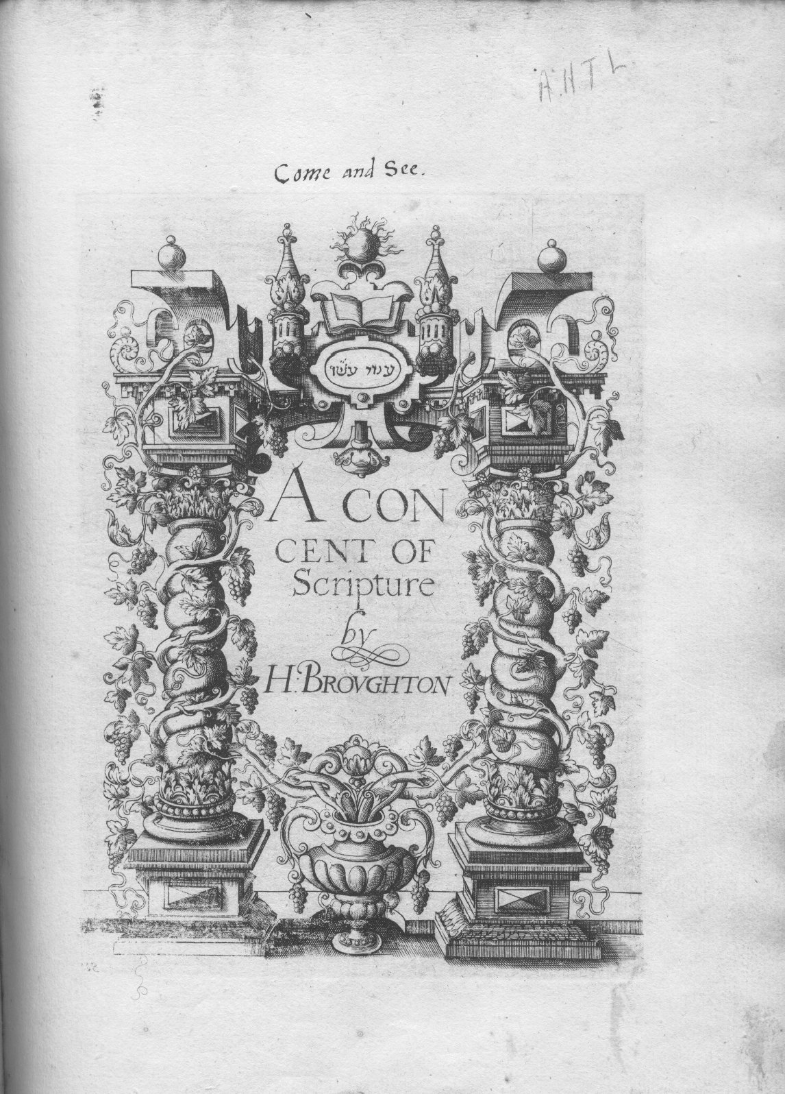 Title page of A Concent of Scripture (1588) by Hugh Broughton.